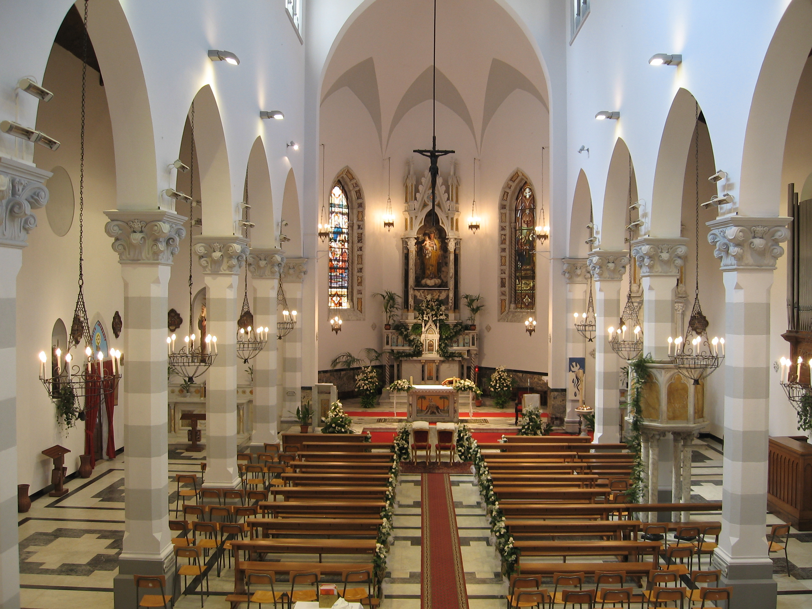 St. Joseph at the Lagaccio, Genova, interior of the parish church